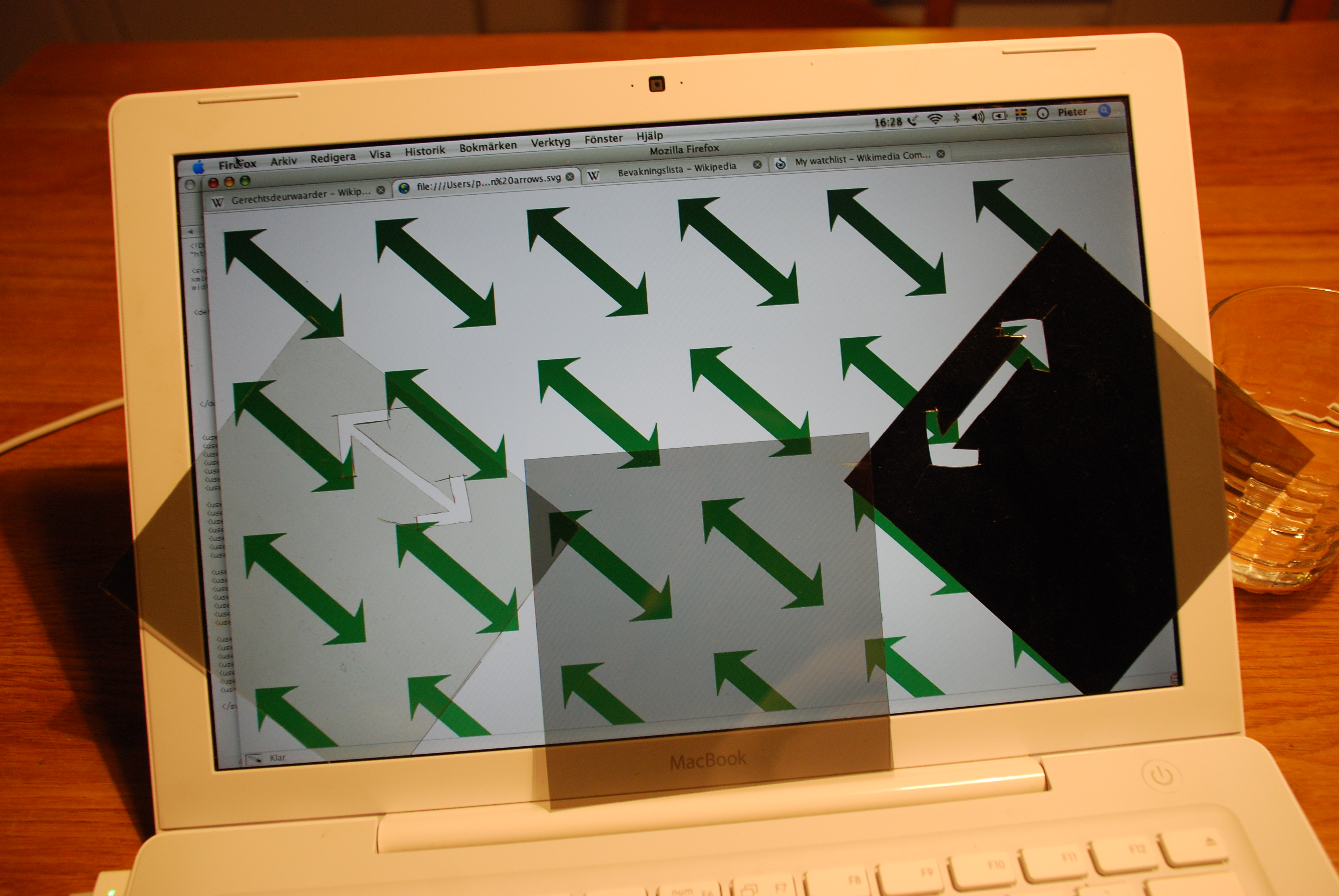 Polarization of light demonstrated using the Liquid Crystal Display of a laptop computer. The top polarizer of the display transmits light with electric field vector parallel to the arrows in the figure. Three pieces of sheet polarizer are used as analyzers. Two of them have arrow-shaped holes indicating the polarization direction of transmitted light, one parallel to the display, the other perpendicular to it. Crossed polarizers do not transmit light.